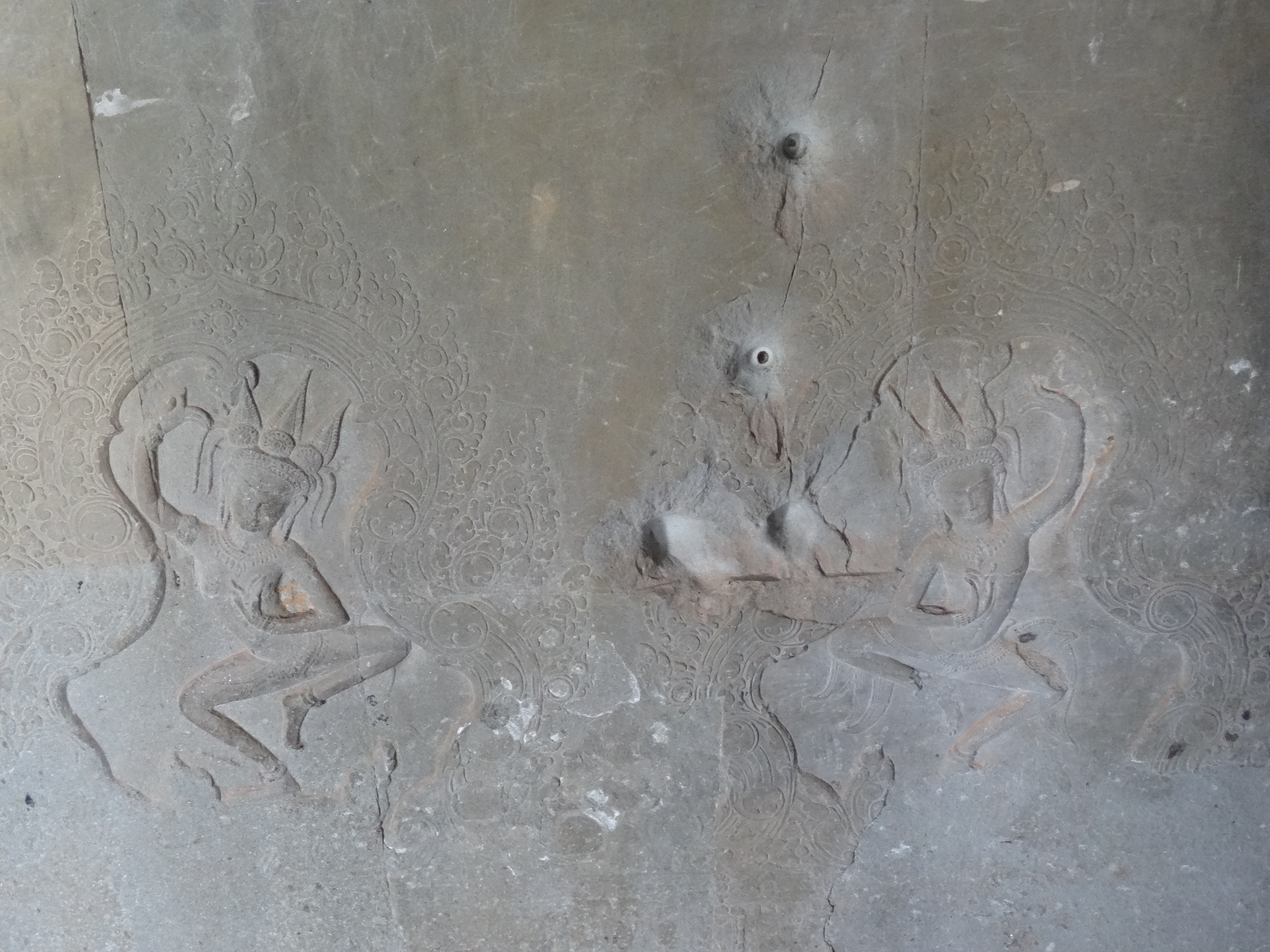 Bullet holes from the Khmer Rouge period at Angkor Wat